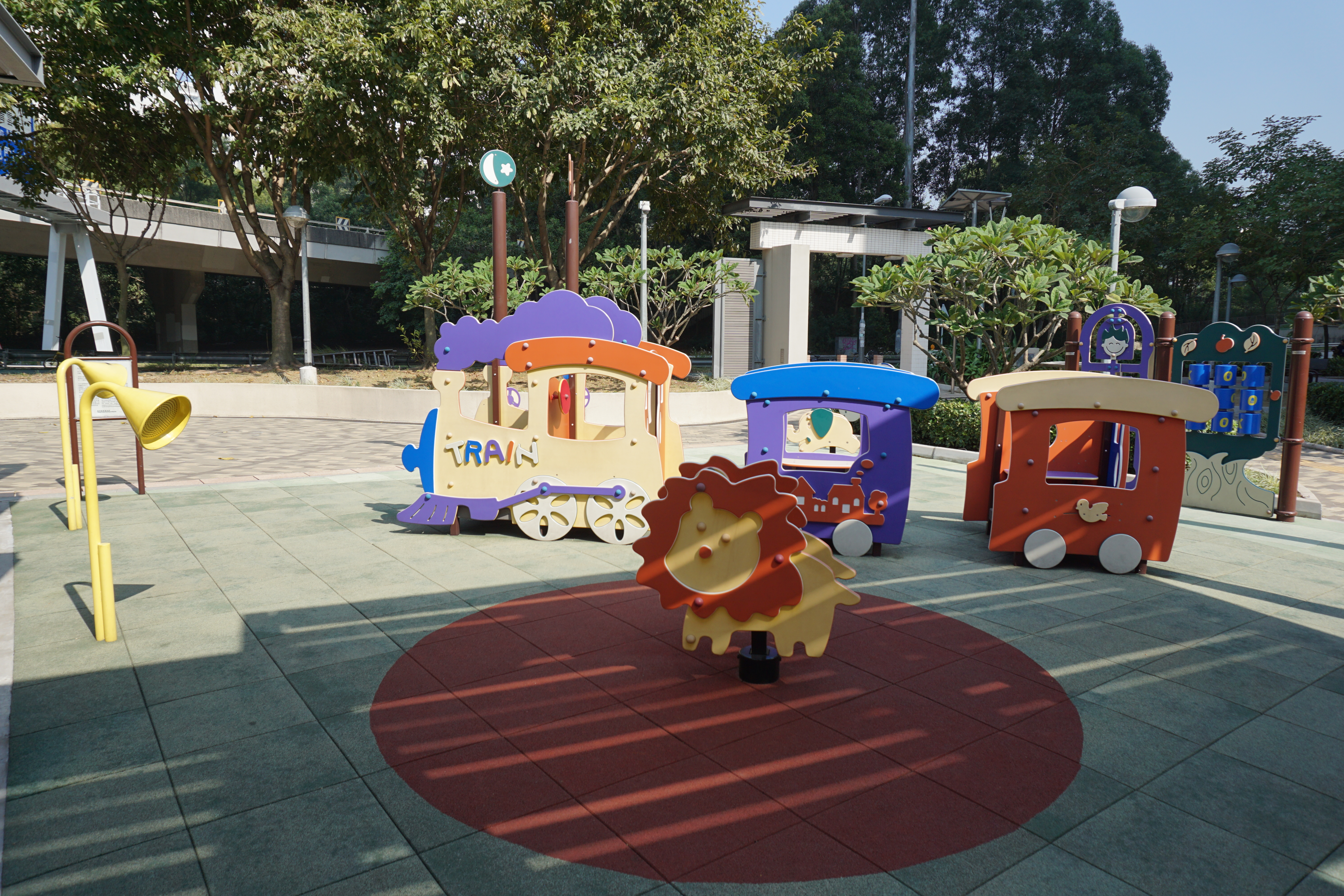 Lung Yat Estate in Tuen Mun, Hong Kong.